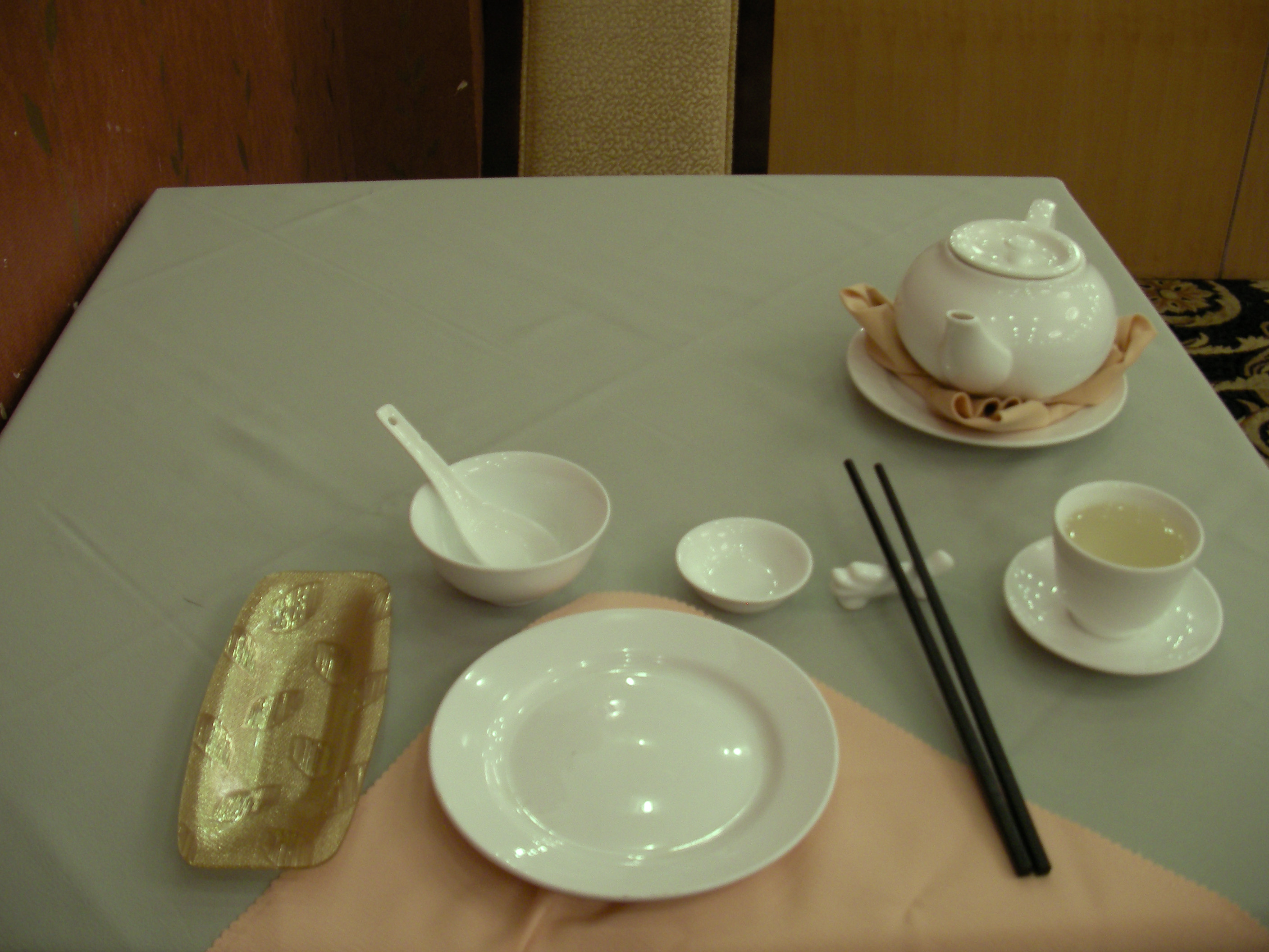 A place setting for a Chinese meal.